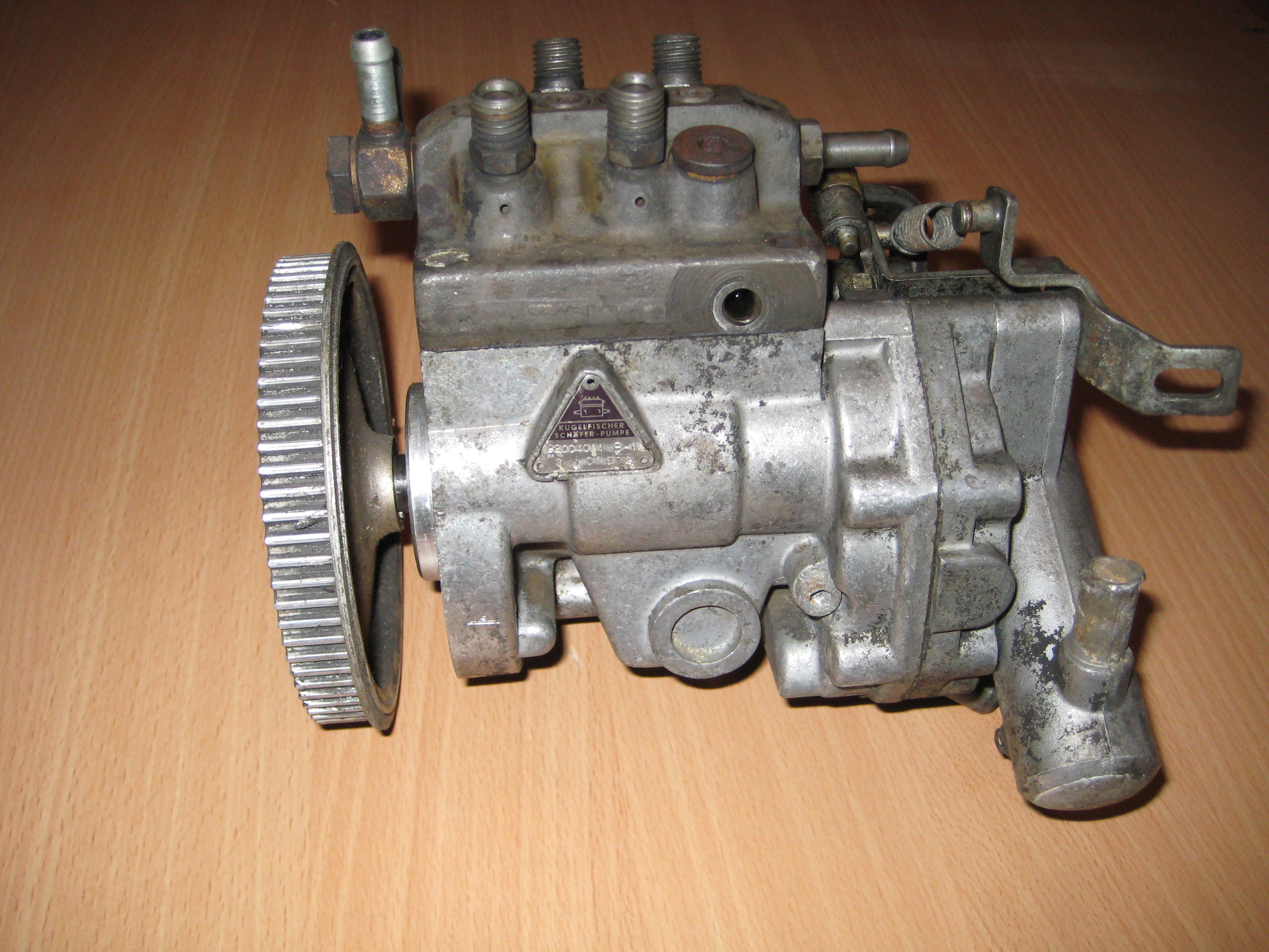 Kugelfischer mechanic Gasoline injection Pump Type PL 04 from a BMW 2002 tii